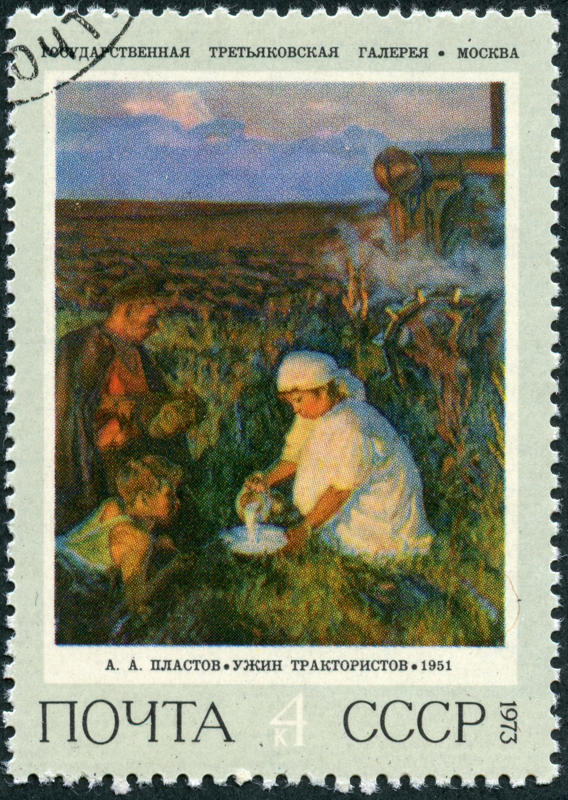 A USSR stamp